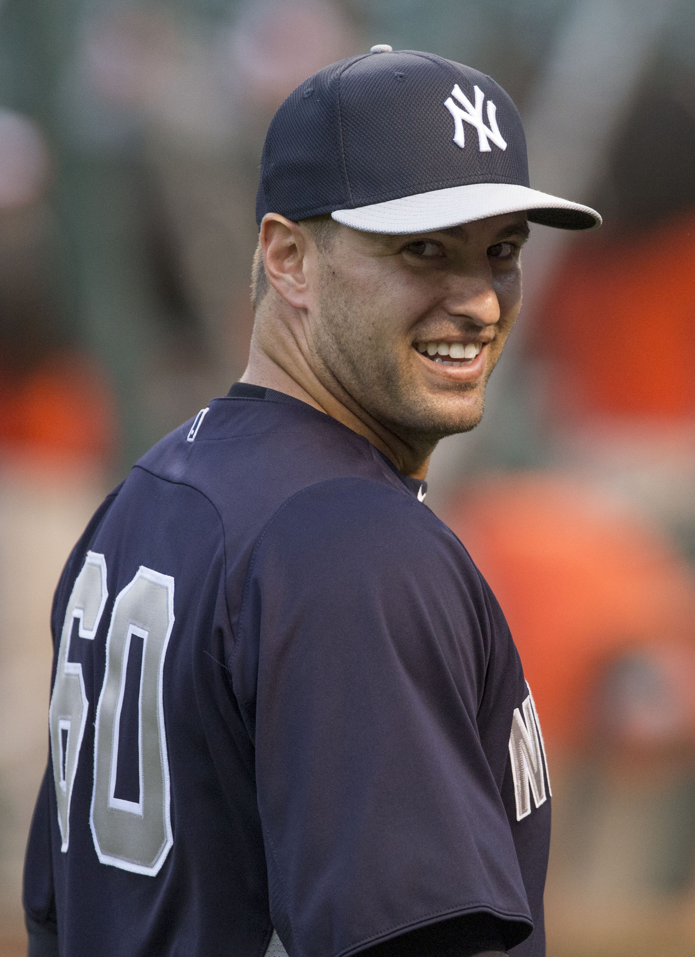 David Huff - Yankees at Orioles 09/09/13